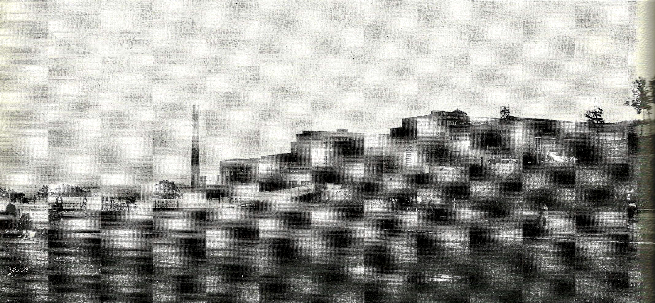 The newly constructed Pottsville High School as viewed from Vetern's Memorial Stadium western endzone in 1933.